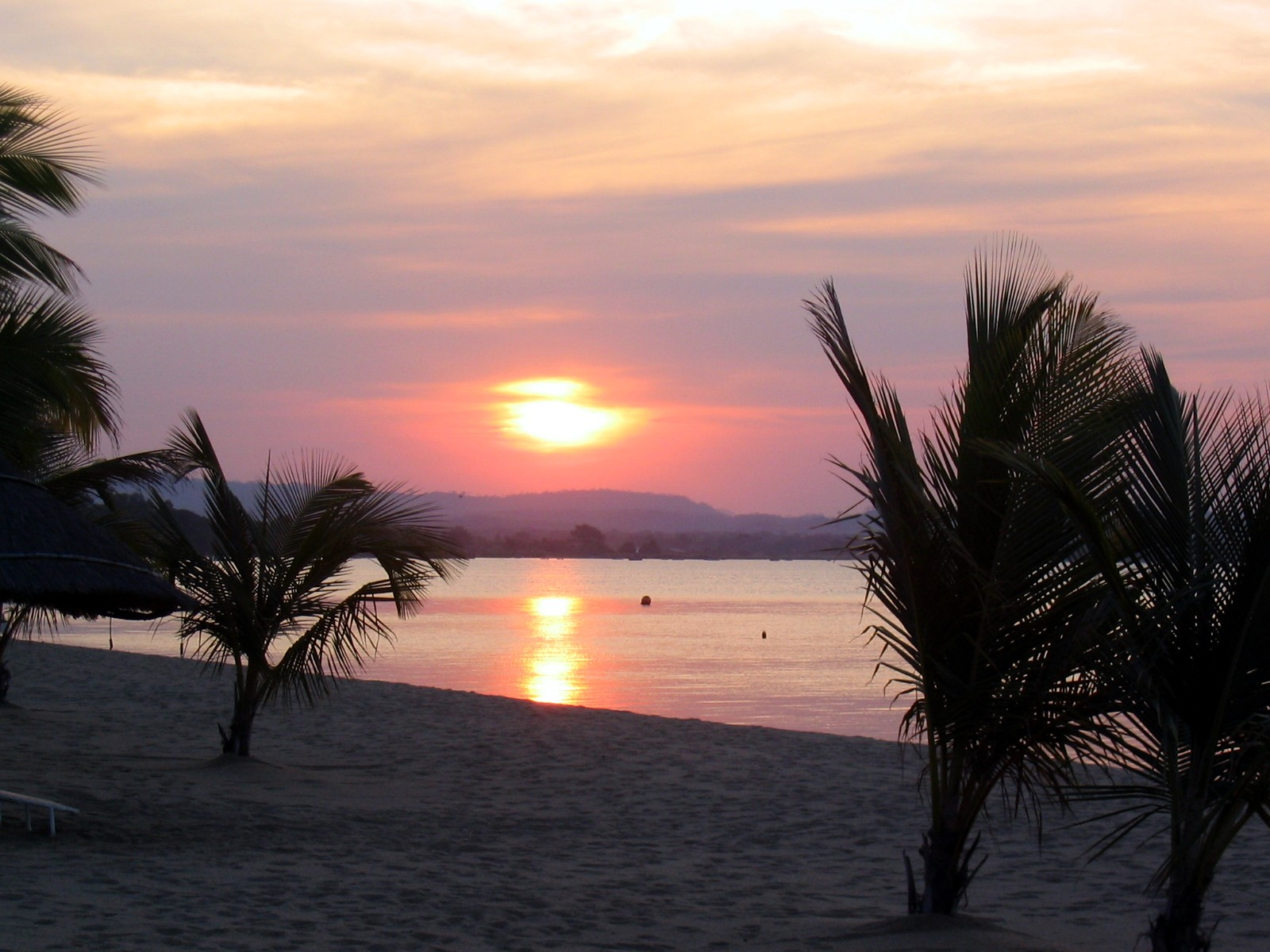 Taken by Jack Curran, 2003.